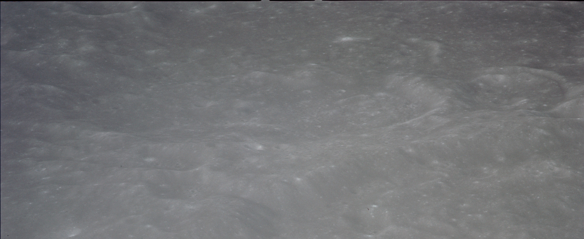 Oblique view of Parrot D crater, with most of Parrot itself in upper right, on the moon, facing south. Brightness and contrast adjusted.